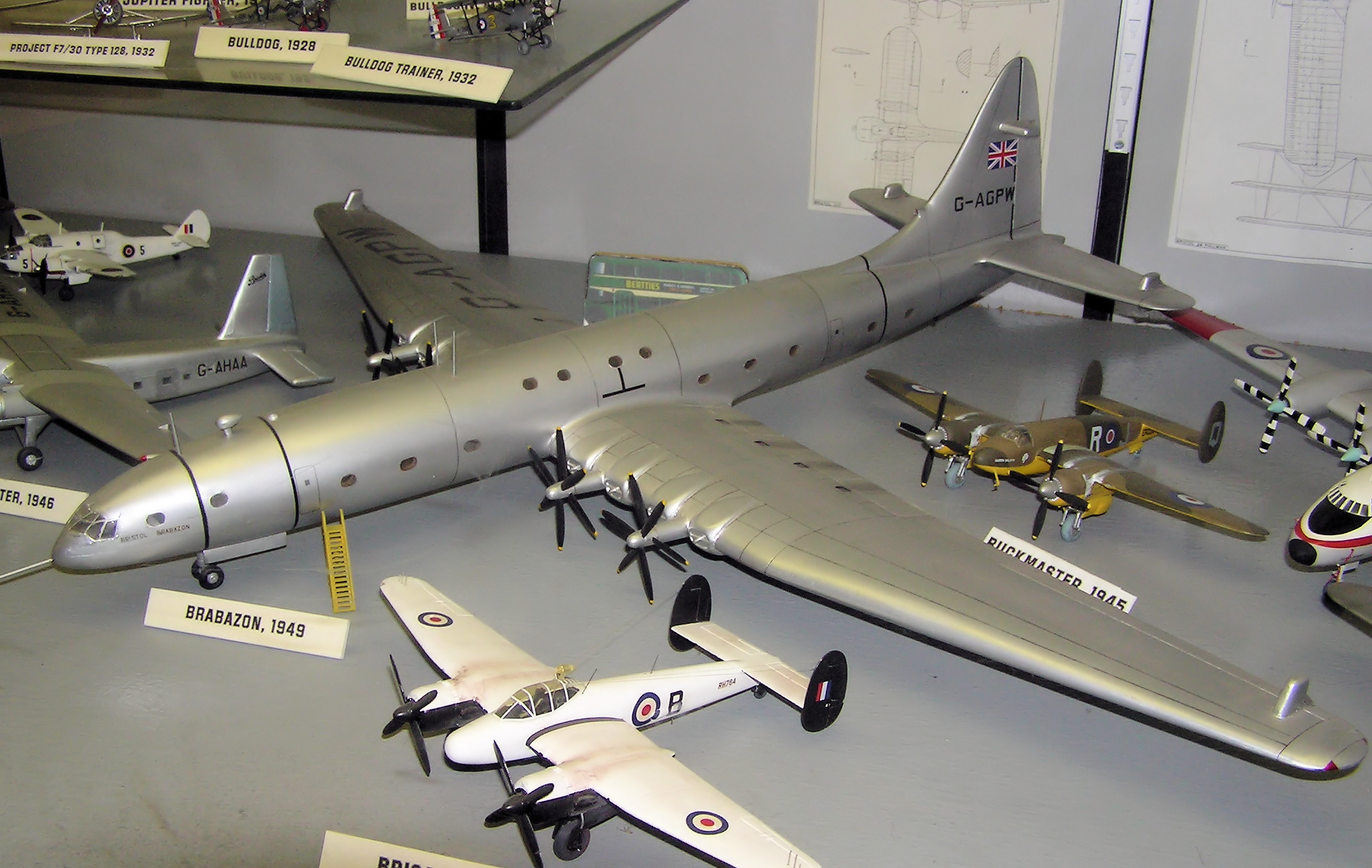 A model of the Bristol Brabazon, at the Bristol Industrial Museum, Bristol, England. In 2007 this museum was permanently closed for conversion to the Museum of Bristol. The exhibits are in storage.